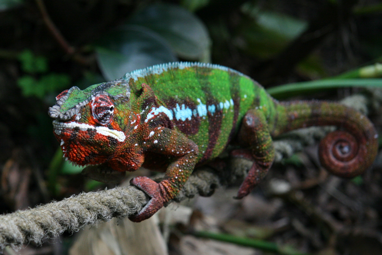 Panther Chameleon at Zürich Zoo, Switzerland.